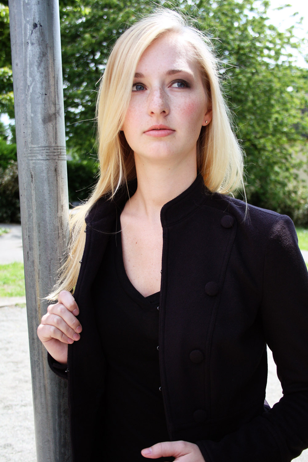 LaurenJHenry